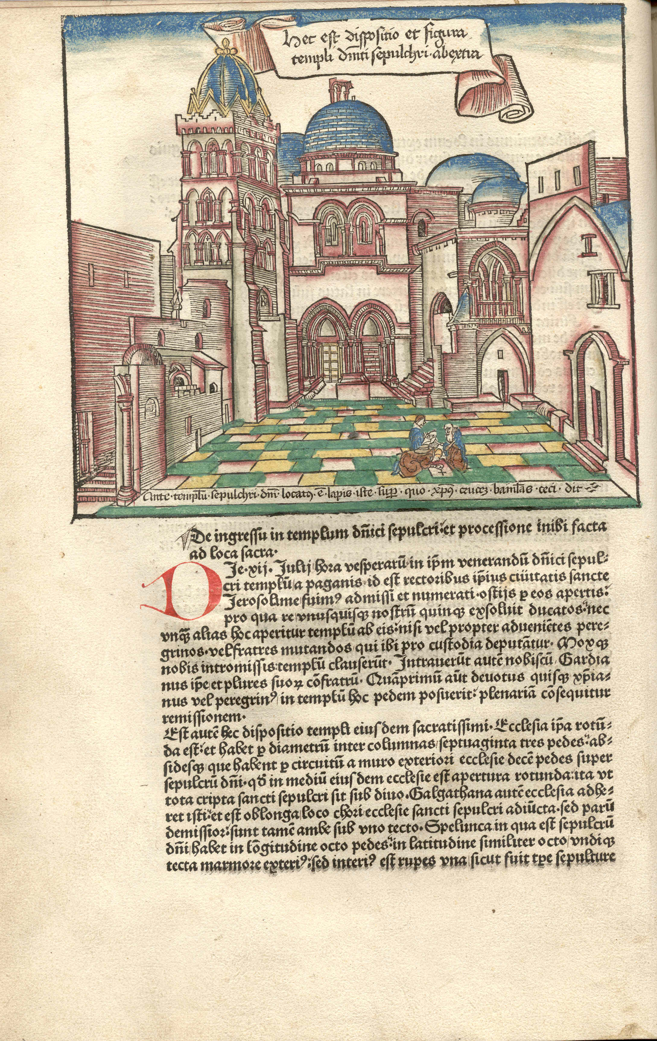 page from: Bernhard von Breydenbach, sanctae peregrinationes, Mainz: Erhard Reuwich 11. February 1486 with a colored illustration of the Church of the Holy Sepulcher